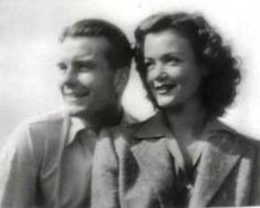 Cropped screenshot of Simone Simon from the trailer for the film The Curse Of The Cat People.